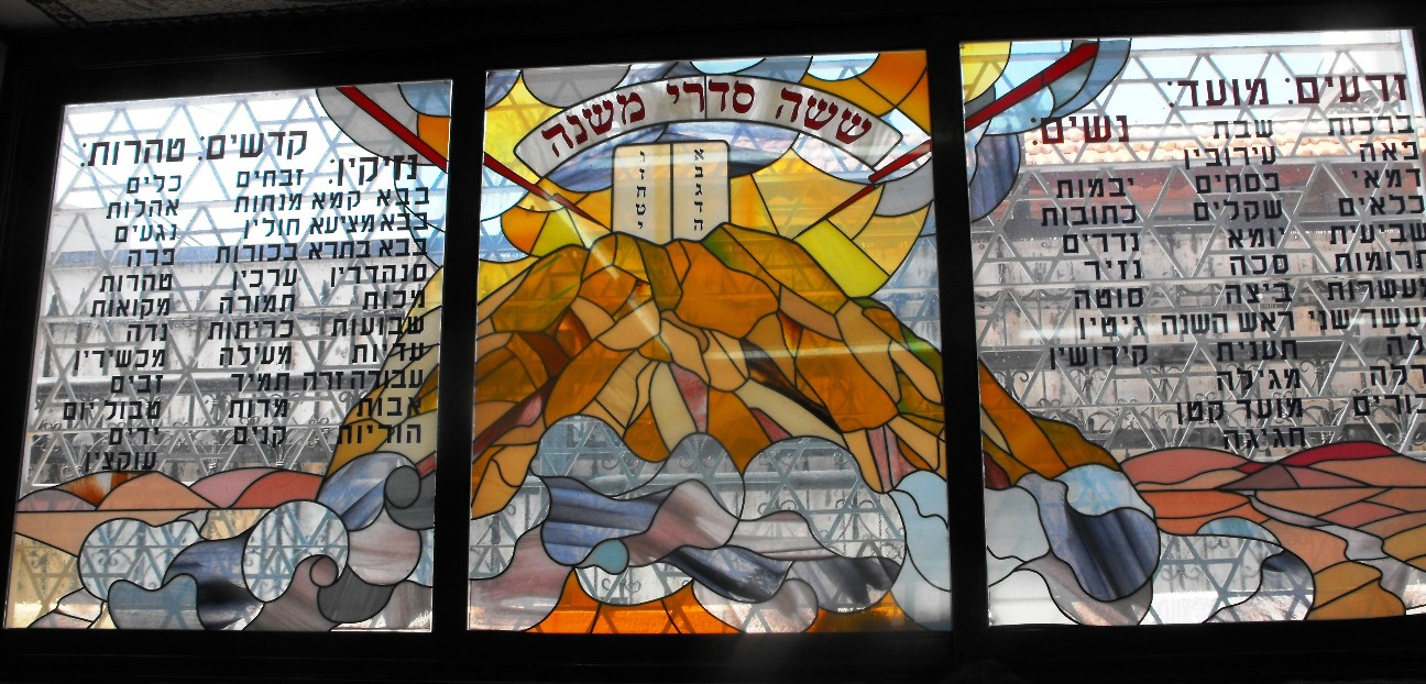 Religion in Israel